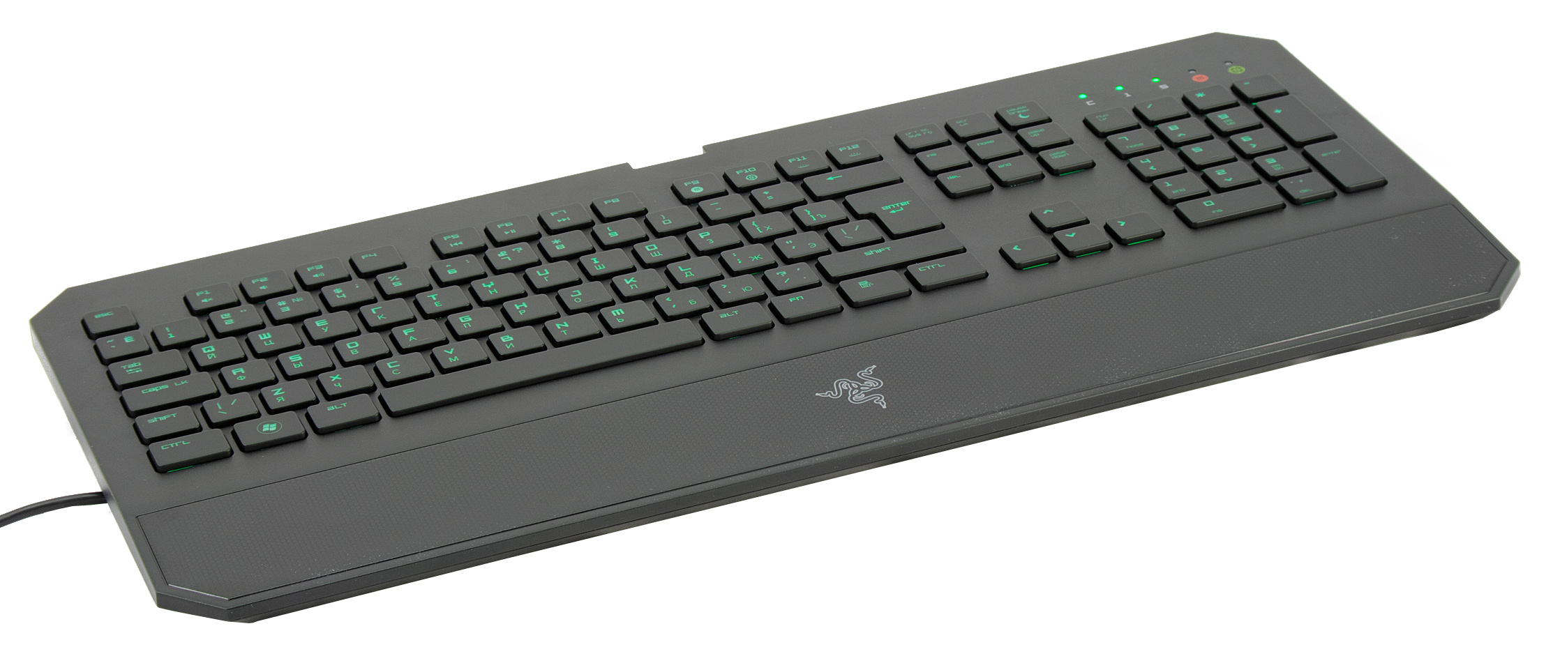 Keyboard Razer DeathStalker